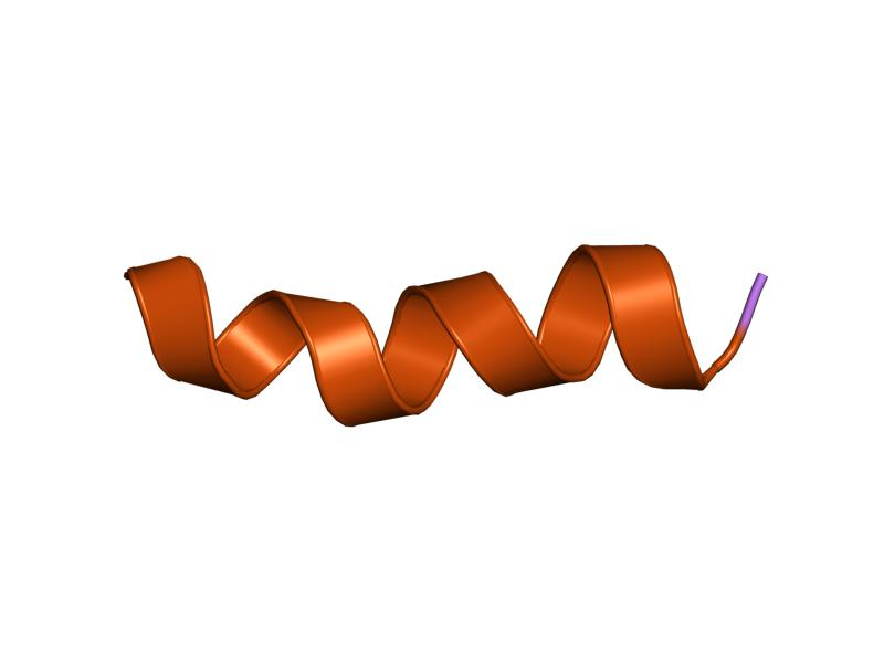 Cartoon representation of the molecular structure of protein registered with 1pjd code.